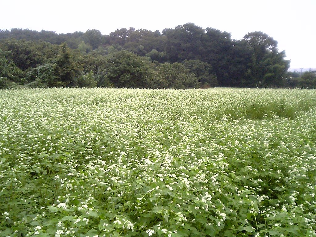 Buckwheat (Fagopyrum esculentum) field, Kantō region, Honshū, Japan. – Material of Buckwheat noodles are one of the cereals which can be harvested twice in one year. This picture was taken in the buckwheat field where it was growed up the one for the buckwheat noodles powder of autumn buckwheat noodles in the flowering time. A white flower to bloom in one side of the buckwheat field is the plant which transmits the visit of the season of spring and autumn, and it is sometimes used as season word (Kigo, 季語) of autumn in Japan.